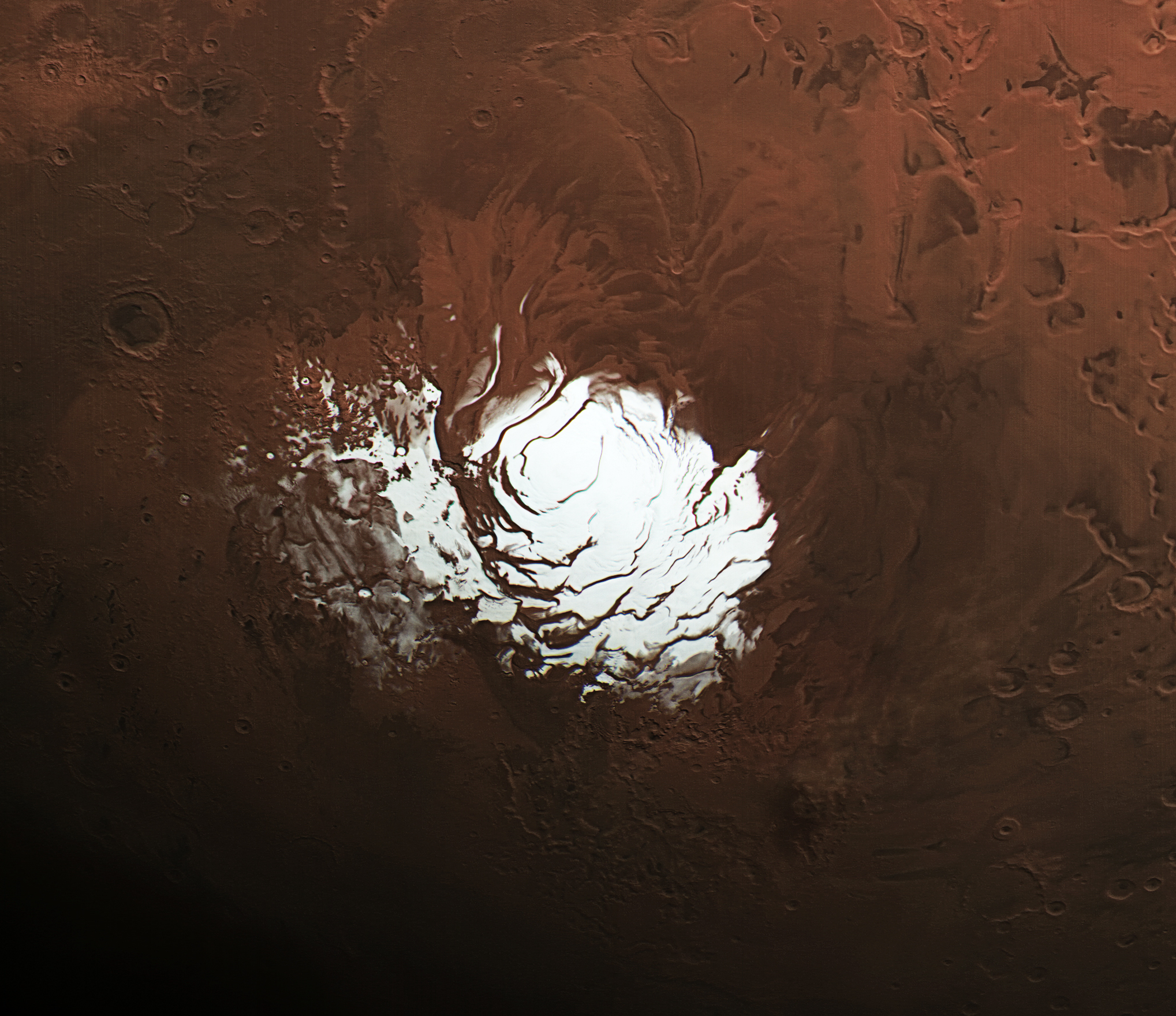 The Martian south pole imaged during summer by the HRSC instrument aboard Mars Express.